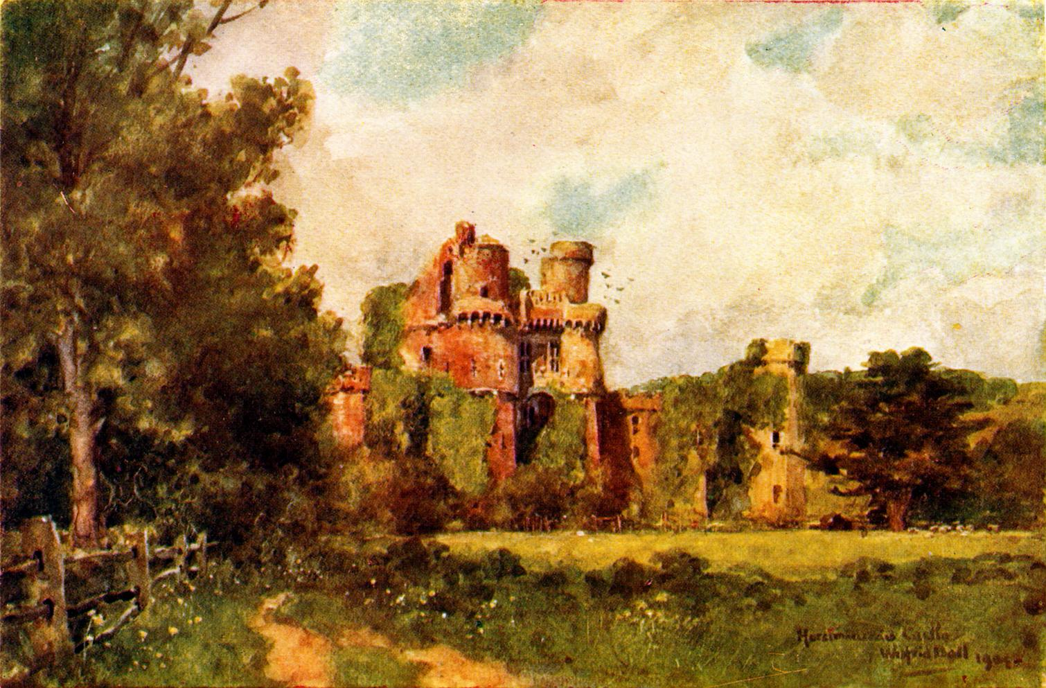 Hurstmonceaux Castle painted by Wilfrid Ball in "Sussex Painted" (1906).